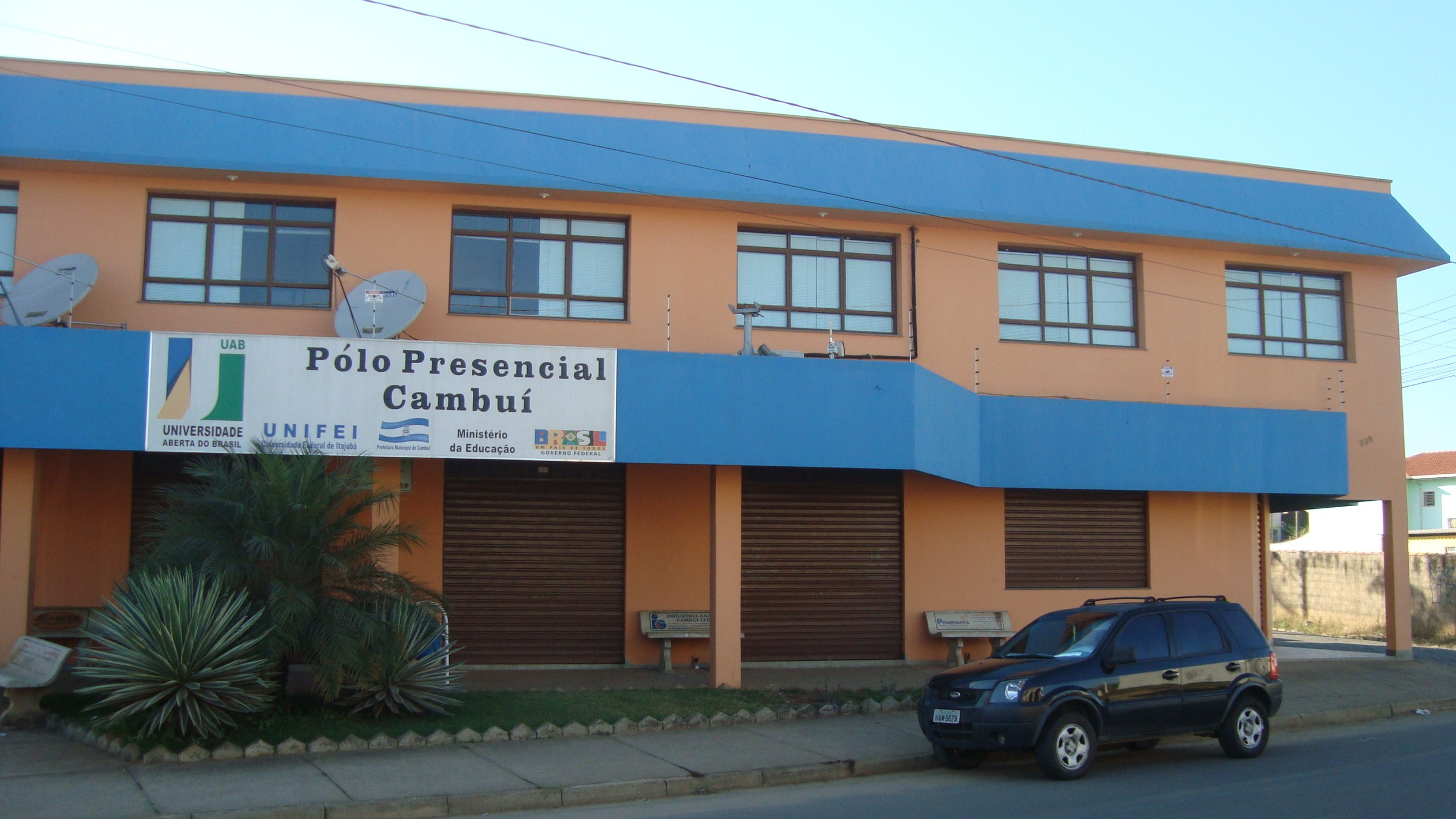 Brazilian Open University facility at Cambui, Minas Gerais, Brazil